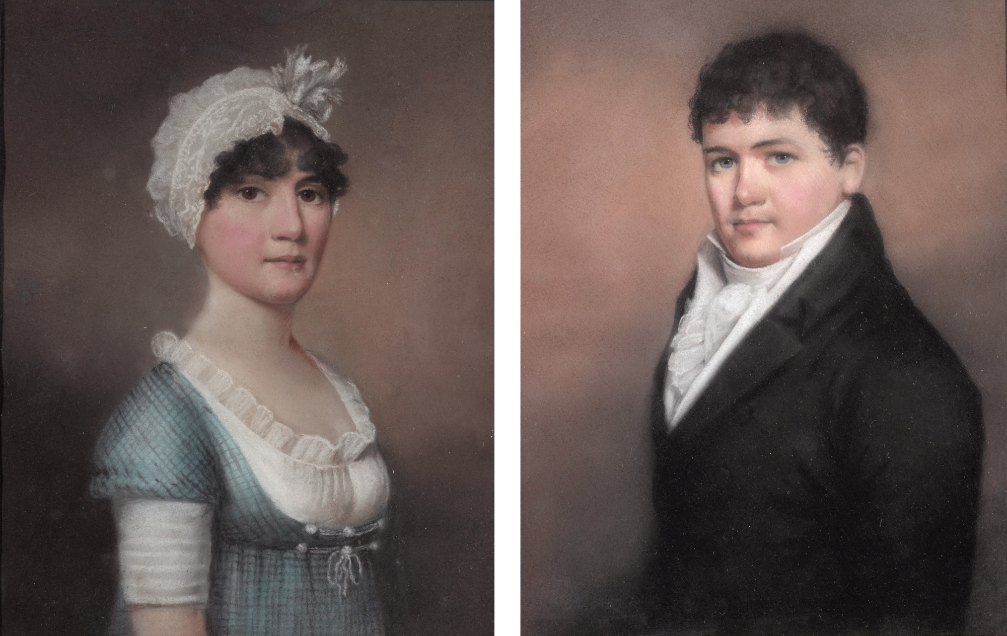 Portraits of a man and a woman pastel on paper 9 1/2 x 7 1/2 inch each